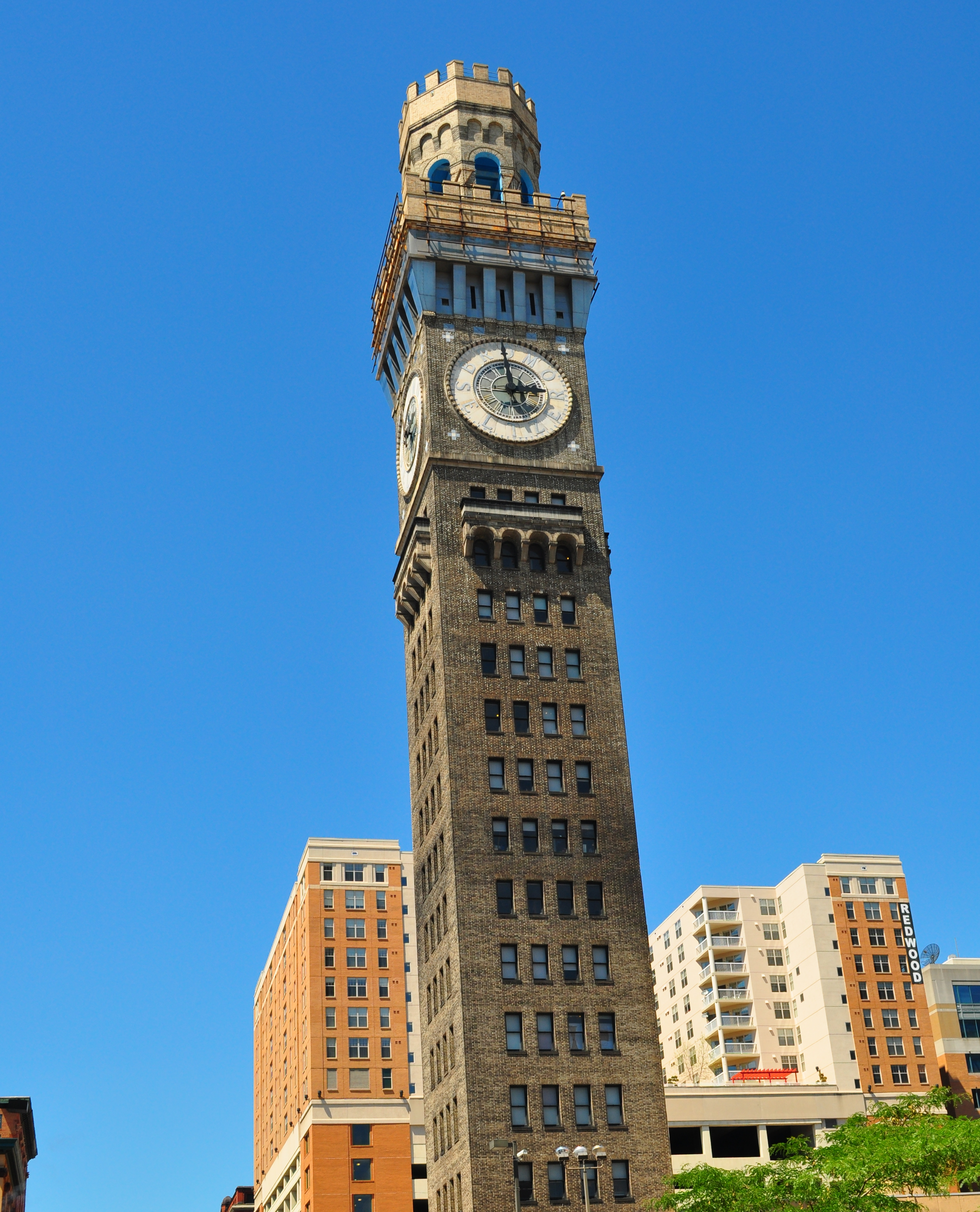 Emerson Bromo-Seltzer Tower, Baltimore. The Emerson Bromo-Seltzer Tower was the tallest building in Baltimore from 1911 until 1923. Emerson Bromo-Seltzer Tower, built in 1911. ಕನ್ನಡ: ಎಮರ್ಸನ್ ಬ್ರೊಮೊ-ಸೆಲ್‌ಟ್ಜರ್ ಟವರ್, 1911ರಲ್ಲಿ ನಿಲ್ಲಿಸಲಾಯಿತು.